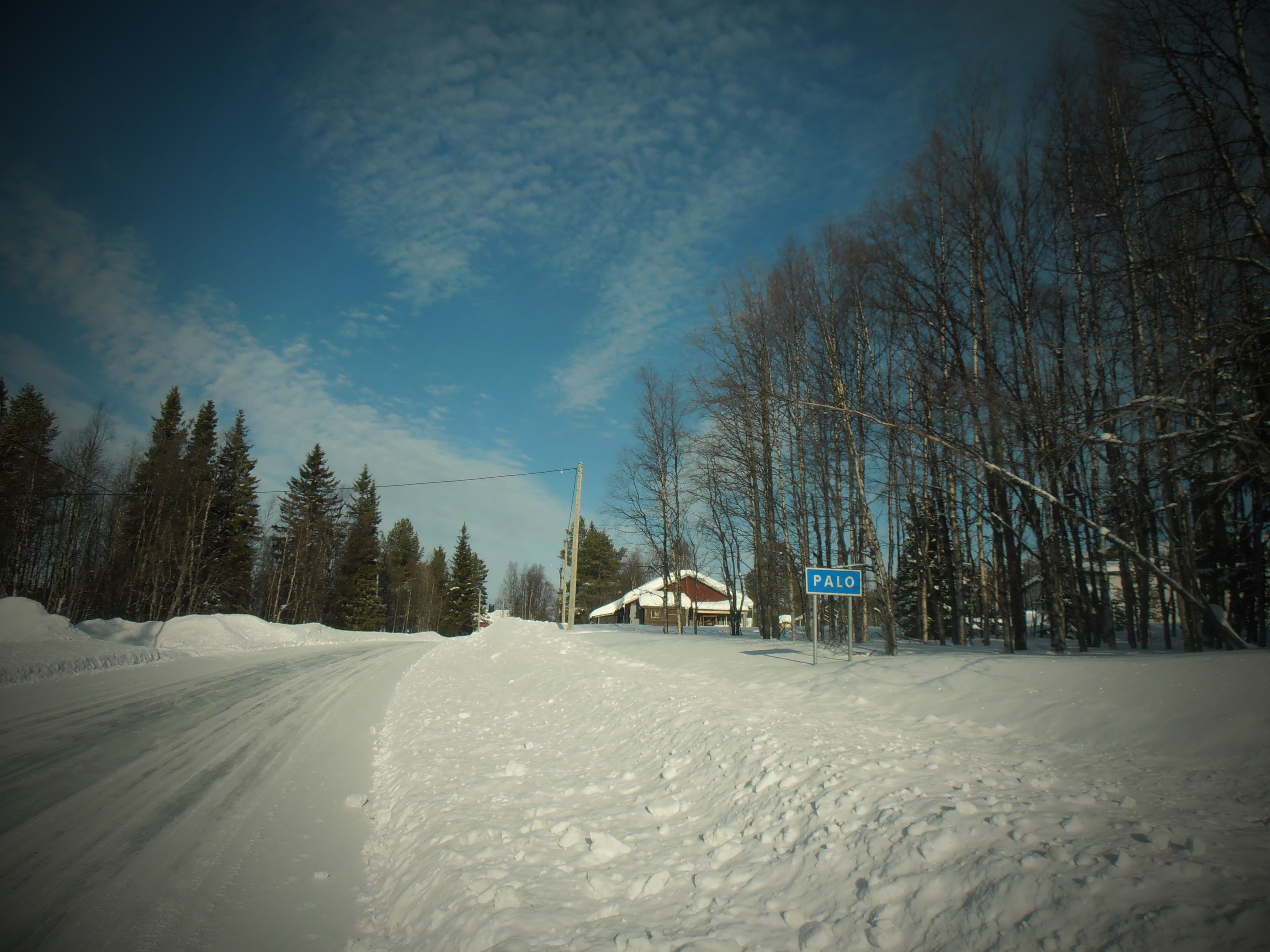 Palo, Gällivare municipality